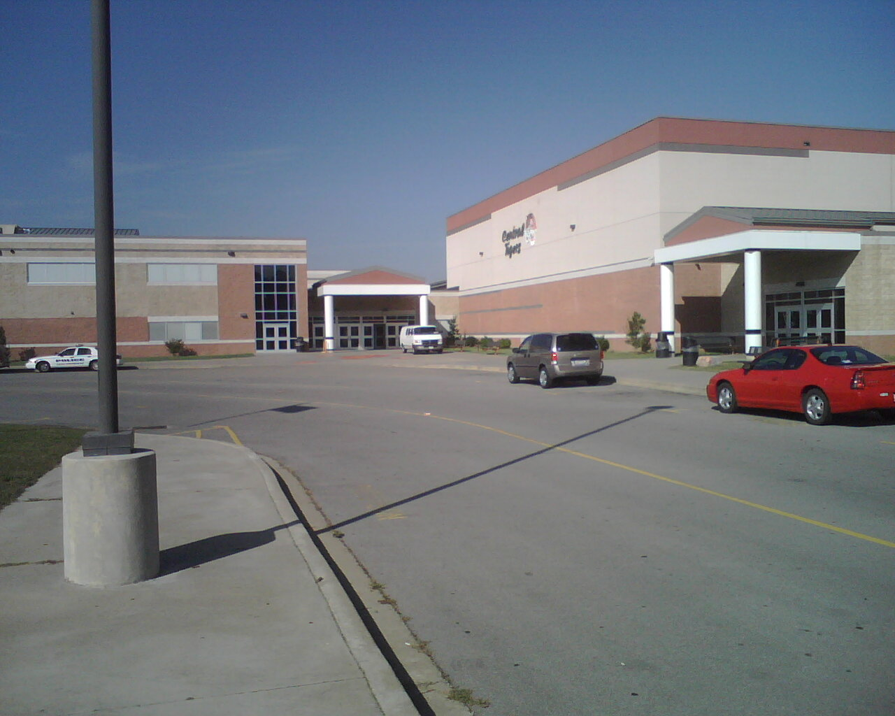 Outside photograph of Cape Central High School in Cape Girardeau, Missouri